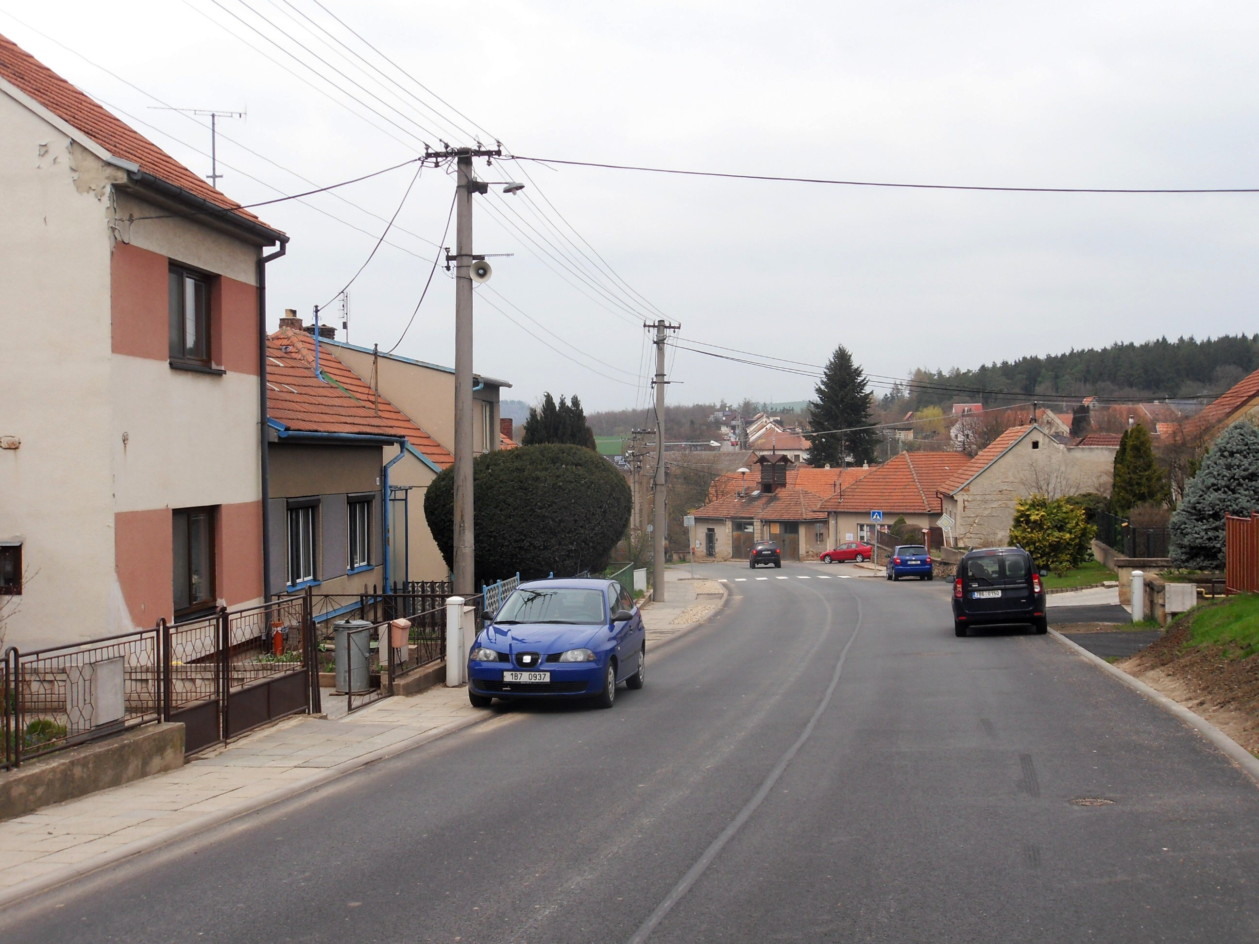 Padochov, Oslavany, Brno-Country District, Czech Republic